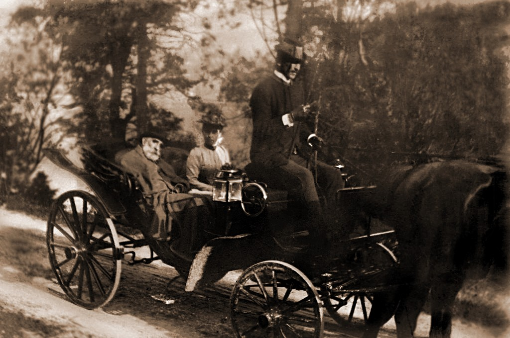 Carriage fabricant in Vienna / Austria / European Union End of July 1891.